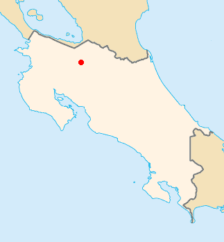 Map of Costa Rica with a red dot indicating where the Maleku language is spoken